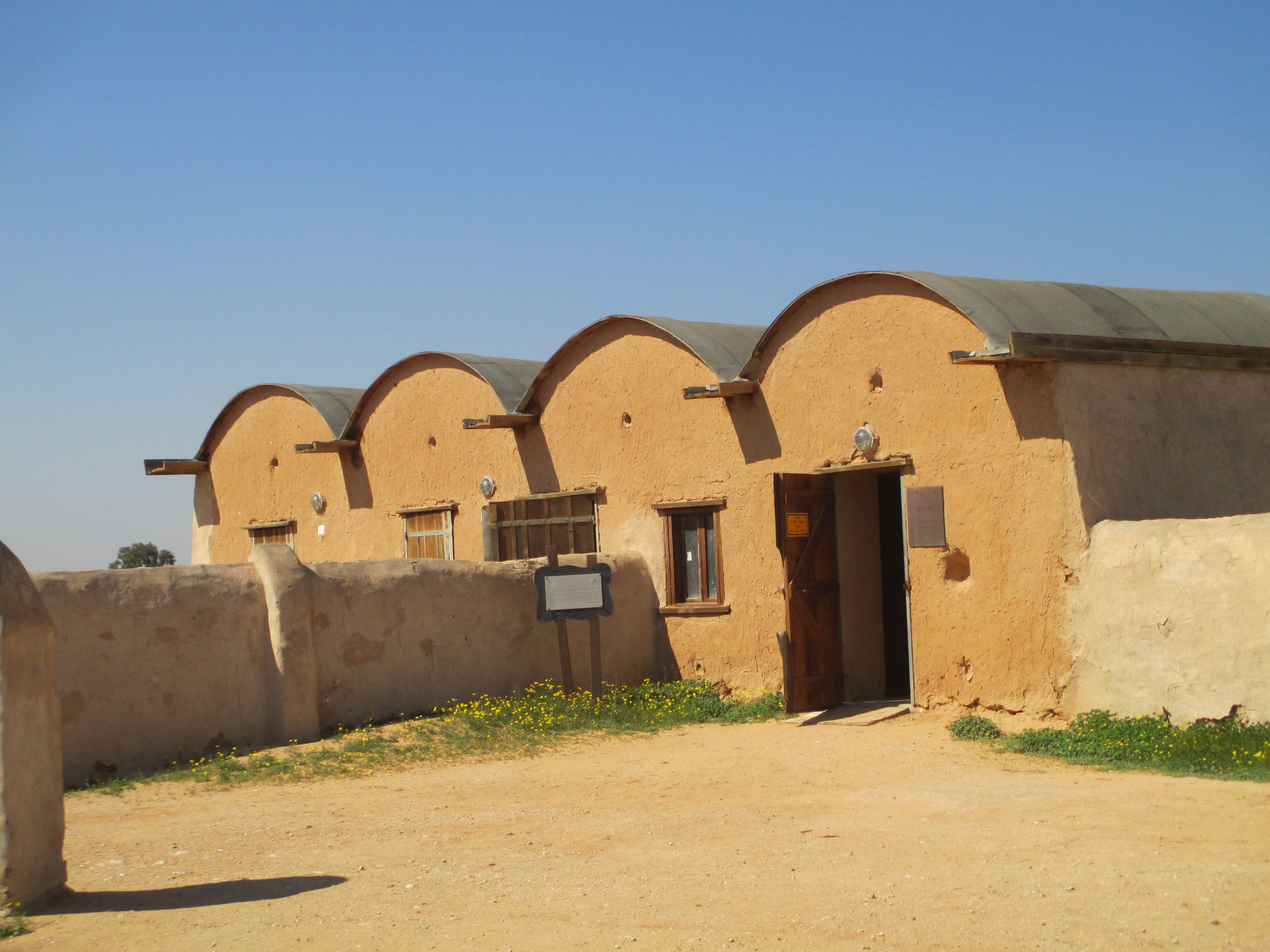 Mitzpe Gvulot